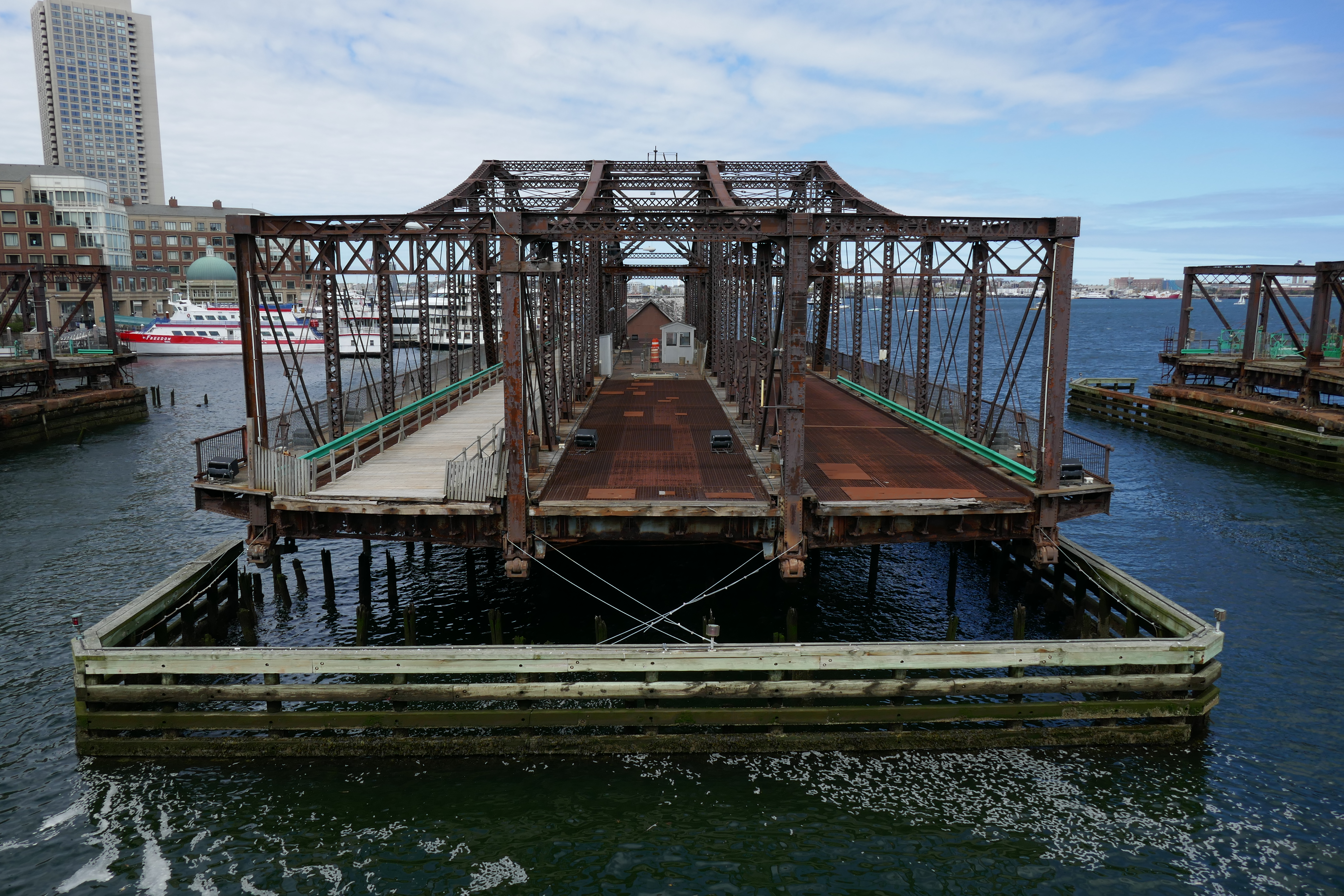 Northern Avenue Bridge in open position after being closed to all traffic